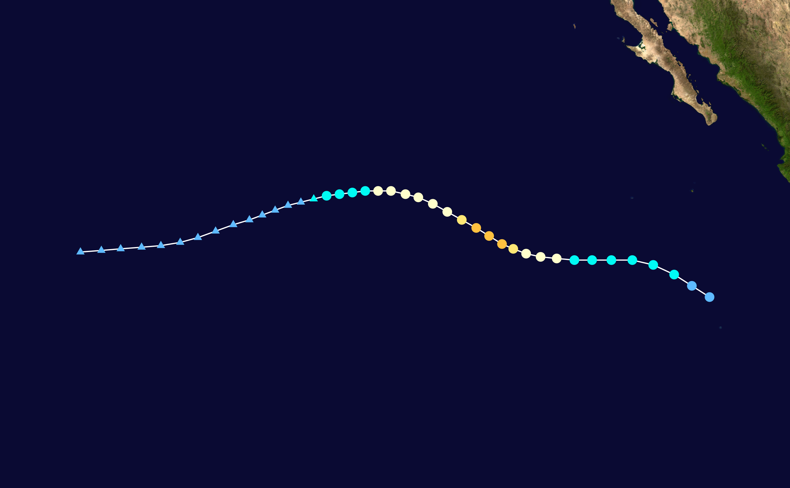 Track map of Hurricane Hernan of the 2008 Pacific hurricane season. The points show the location of the storm at 6-hour intervals. The colour represents the storm's maximum sustained wind speeds as classified in the Saffir–Simpson scale (see below), and the shape of the data points represent the nature of the storm, according to the legend below. Saffir–Simpson scale Tropical depression≤38 mph≤62 km/h Category 3111–129 mph178–208 km/h Tropical storm39–73 mph63–118 km/h Category 4130–156 mph209–251 km/h Category 174–95 mph119–153 km/h Category 5≥157 mph≥252 km/h Category 296–110 mph154–177 km/h Unknown Storm type Tropical cyclone Subtropical cyclone Extratropical cyclone / Remnant low / Tropical disturbance / Monsoon depression